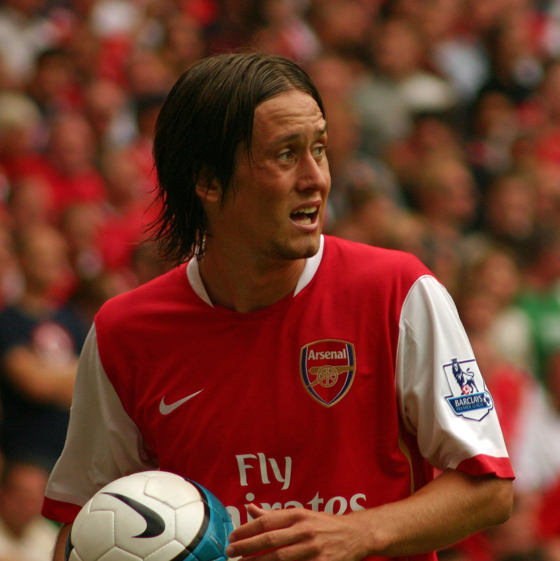 Czech football player Tomáš Rosický while playing for Arsenal F.C.